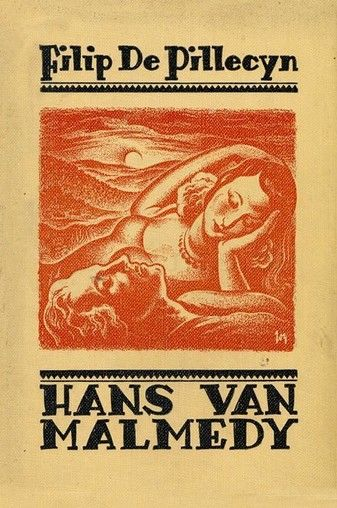 Cover of the book Hans van Malmedy by Filip De Pillecyn. Design by Jos. De Swerts